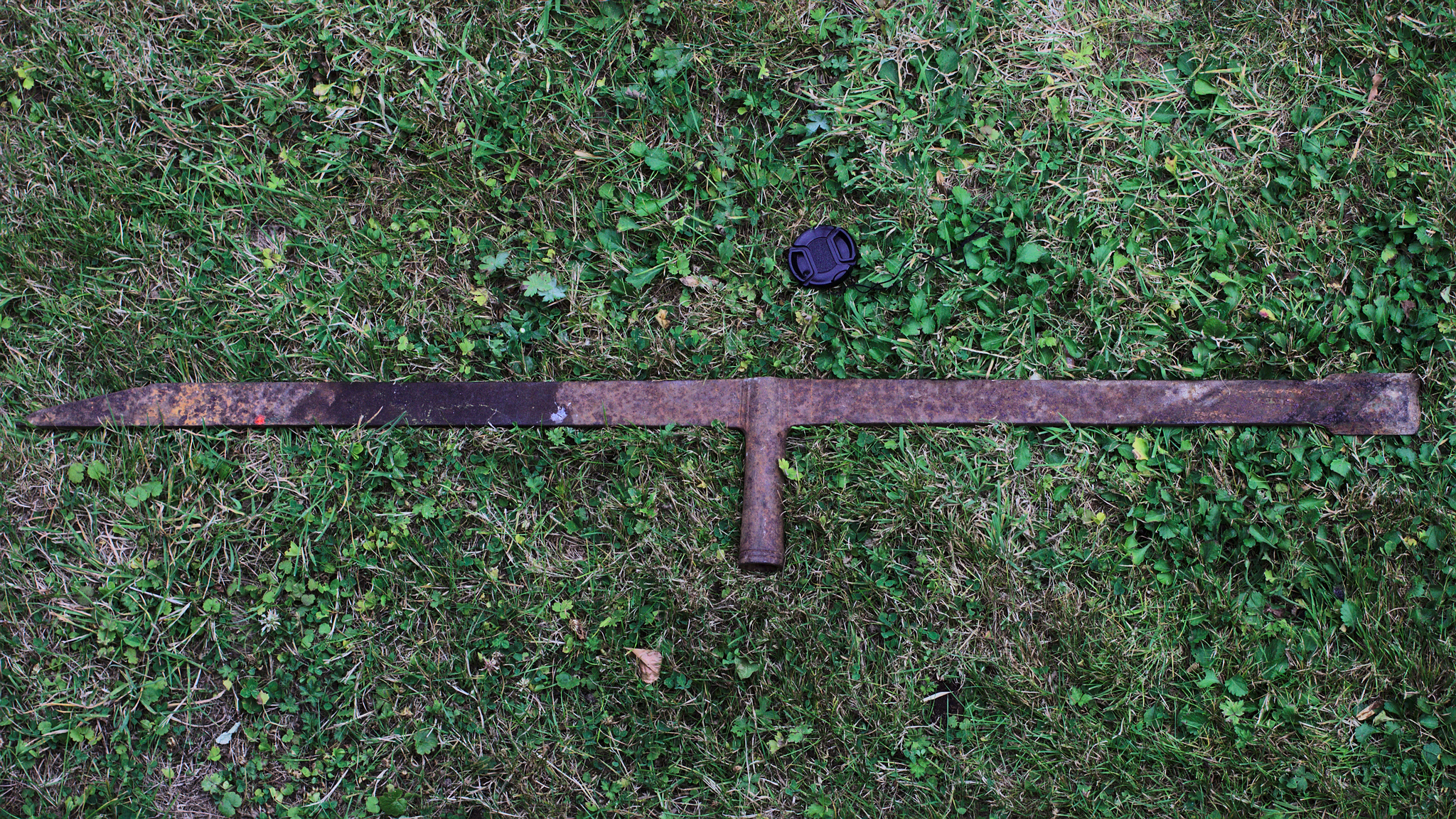 Bisaiguë is the French name for a twybil aka mortise push-axe. This old rusty bisaiguë is huge. That's why I added the lens cap, so people could get an idea how big the thing is. The handle was not used as handle. It was filled with blazes when the weather was cold.